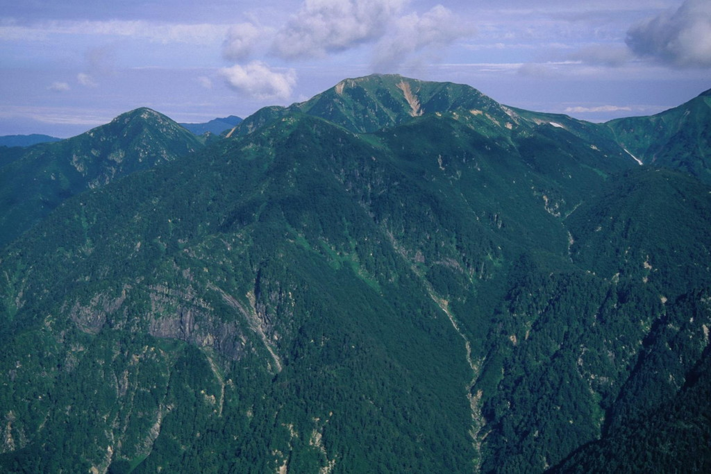 Ecyuzawadake_from_Eboshidake_1997-8-14